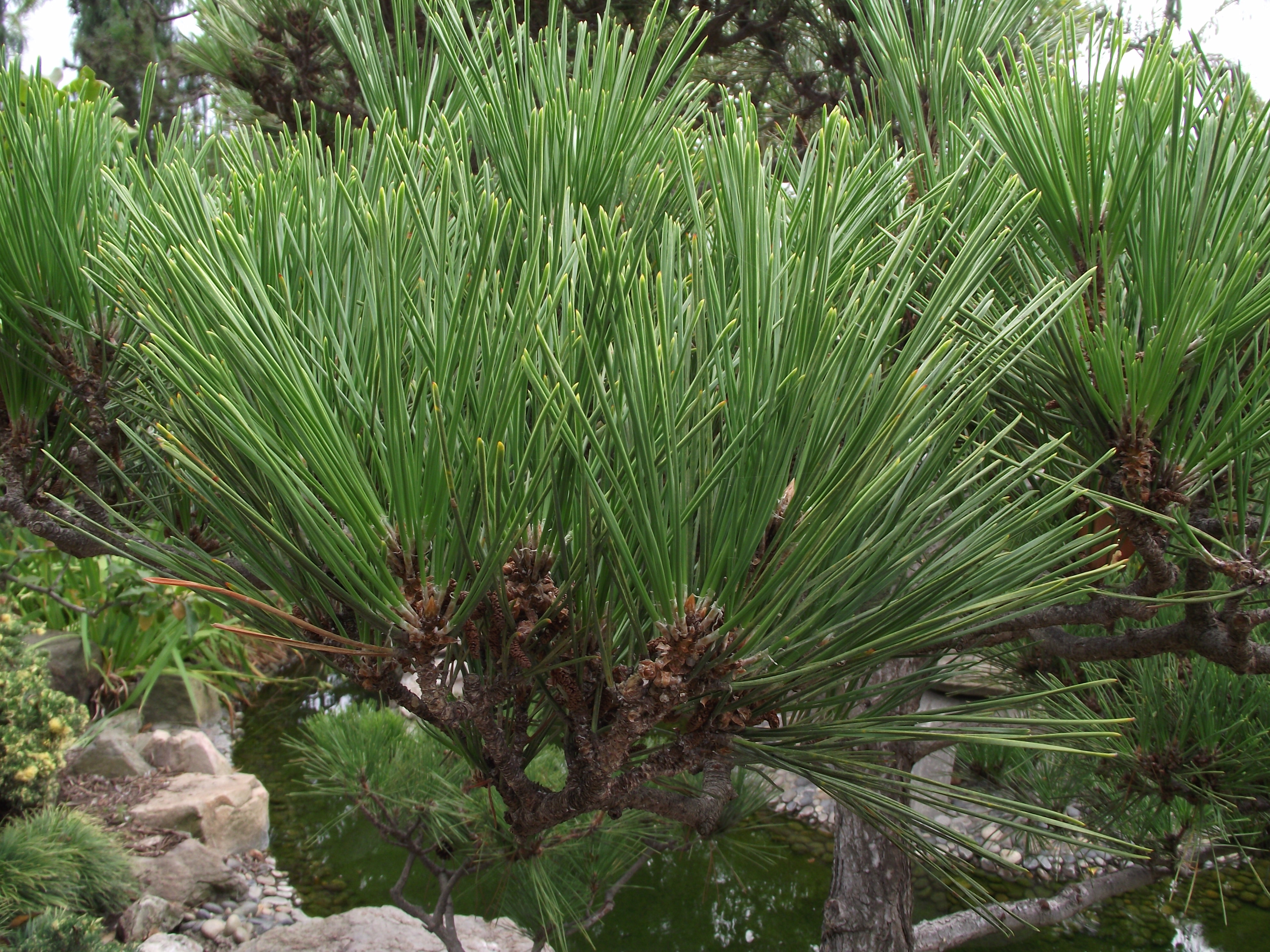 Pinus thunbergii at the San Diego Zoo, CA, USA